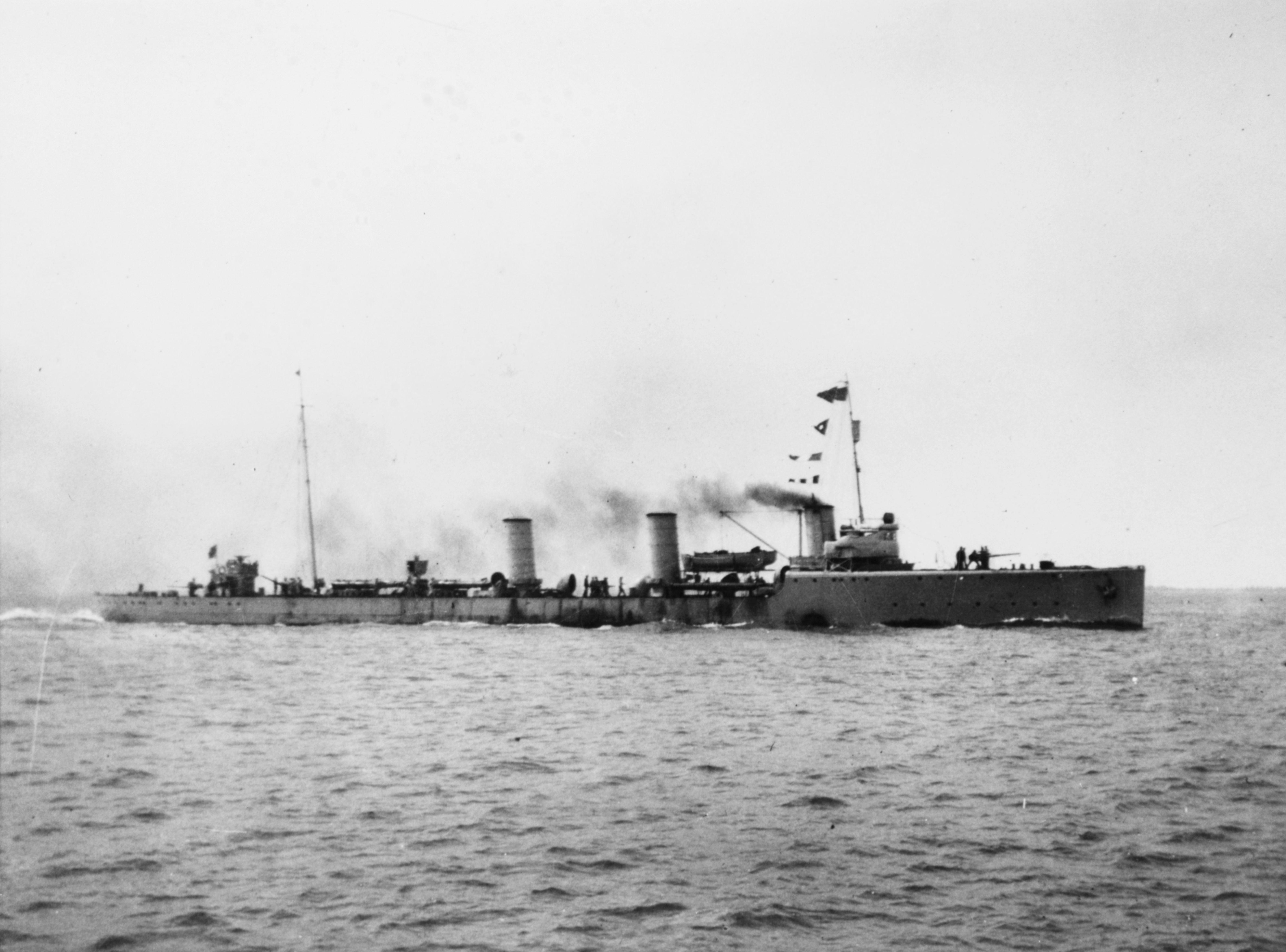 A German Imperial Navy Zerstörer Typ G 101 (G101-class destroyer) in about 1915-1916. This class of four ships (G101-104) was begun for Argentina (Santiago, San Luis, Santa Fé, and Tucuman) and taken over after the outbreak of the First World War at the Germaniawerft Shipyard, Kiel (Germany).